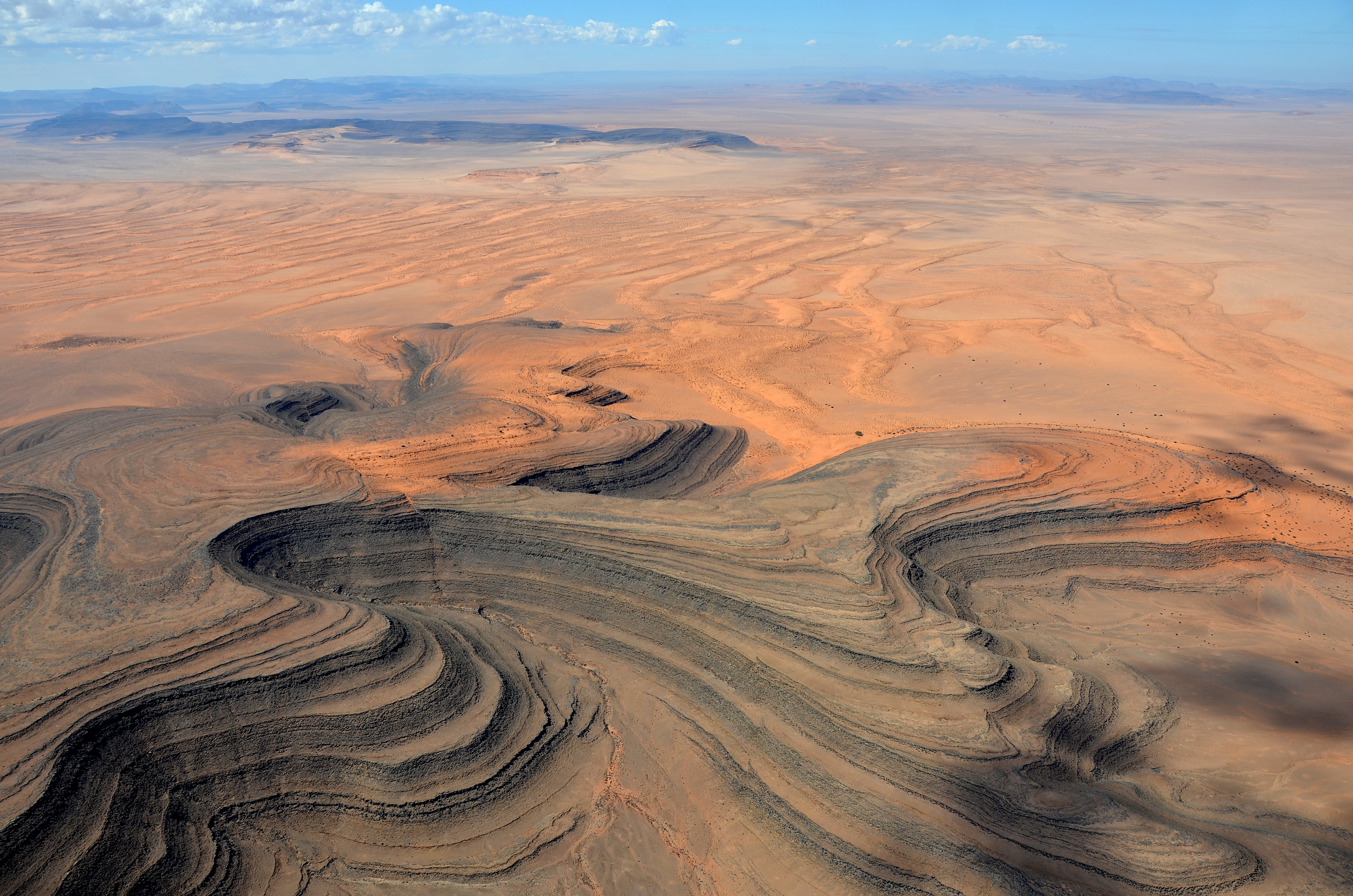 Sperrgebiet Namibia from Bird´s eye view (2017)